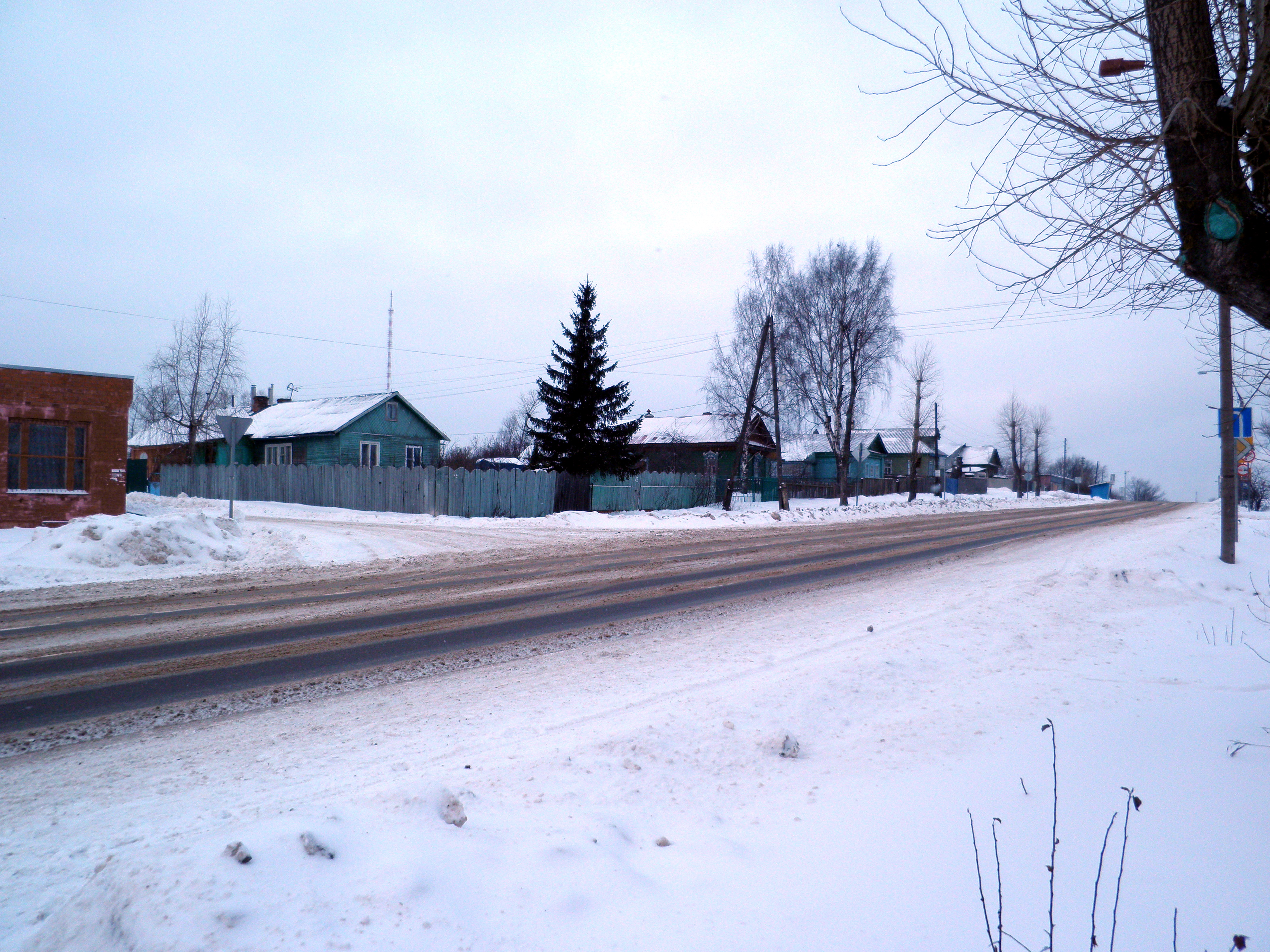 Karabikha - a village in Yaroslavl Oblast, Russia